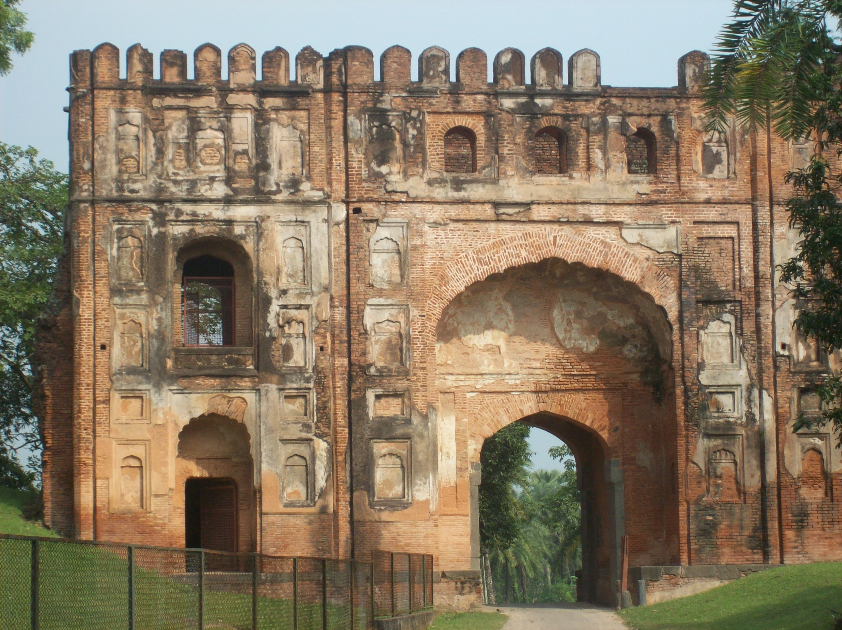 The historical site where the entry gate to Gaur is situated.